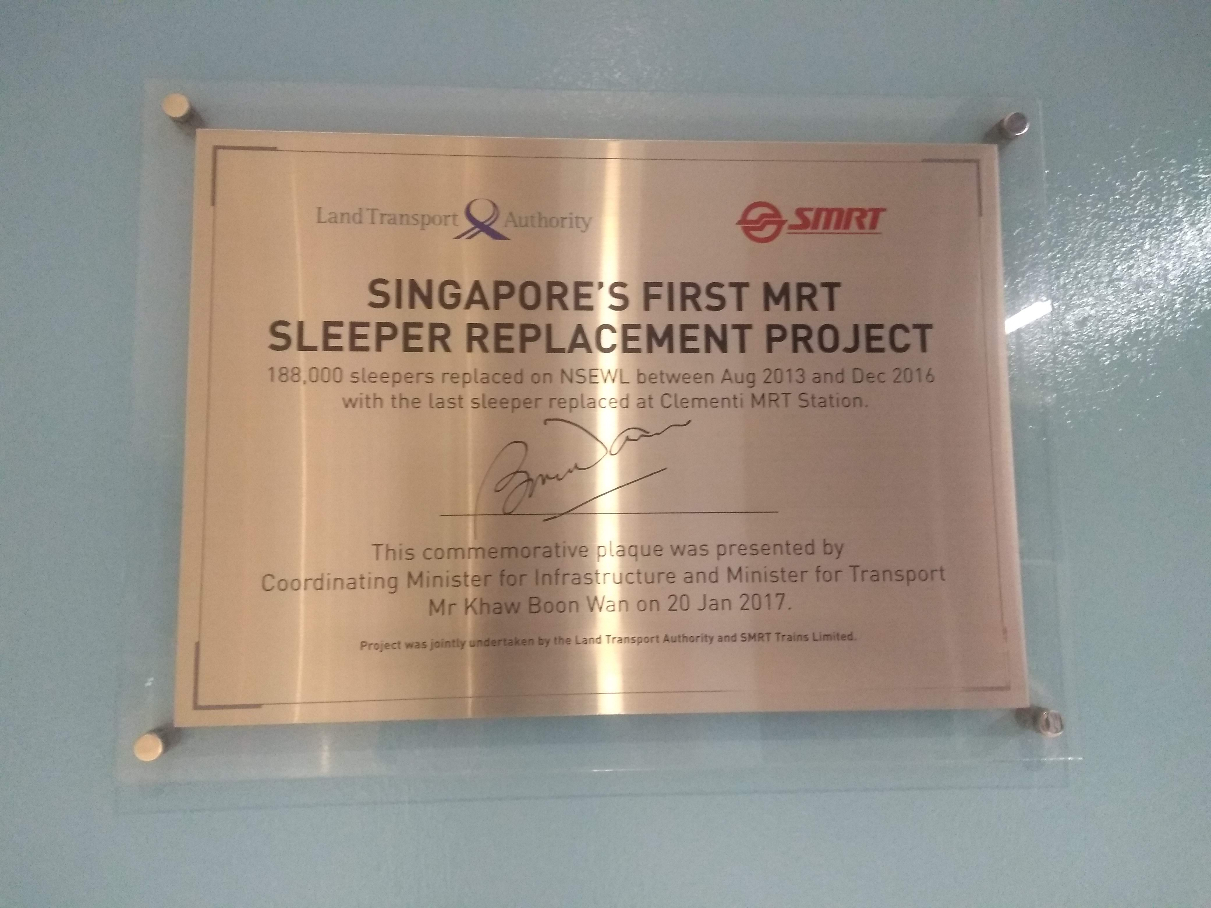 Plaque on display at Clementi MRT Station which reads: Singapore's first MRT sleeper replacement project. 188,000 sleepers replaced on NSEWL between Aug 2013 and Dec 2016 with the last sleeper replaced at Clementi MRT Station. This commemerative plaque was presented by Coordinating Minister for Infrastructure and Minister for Transport Mr Khaw Boon Wan on 20 Jan 2017. Project was jointly undertaken by the Land Transport Authority and SMRT Trains Limited